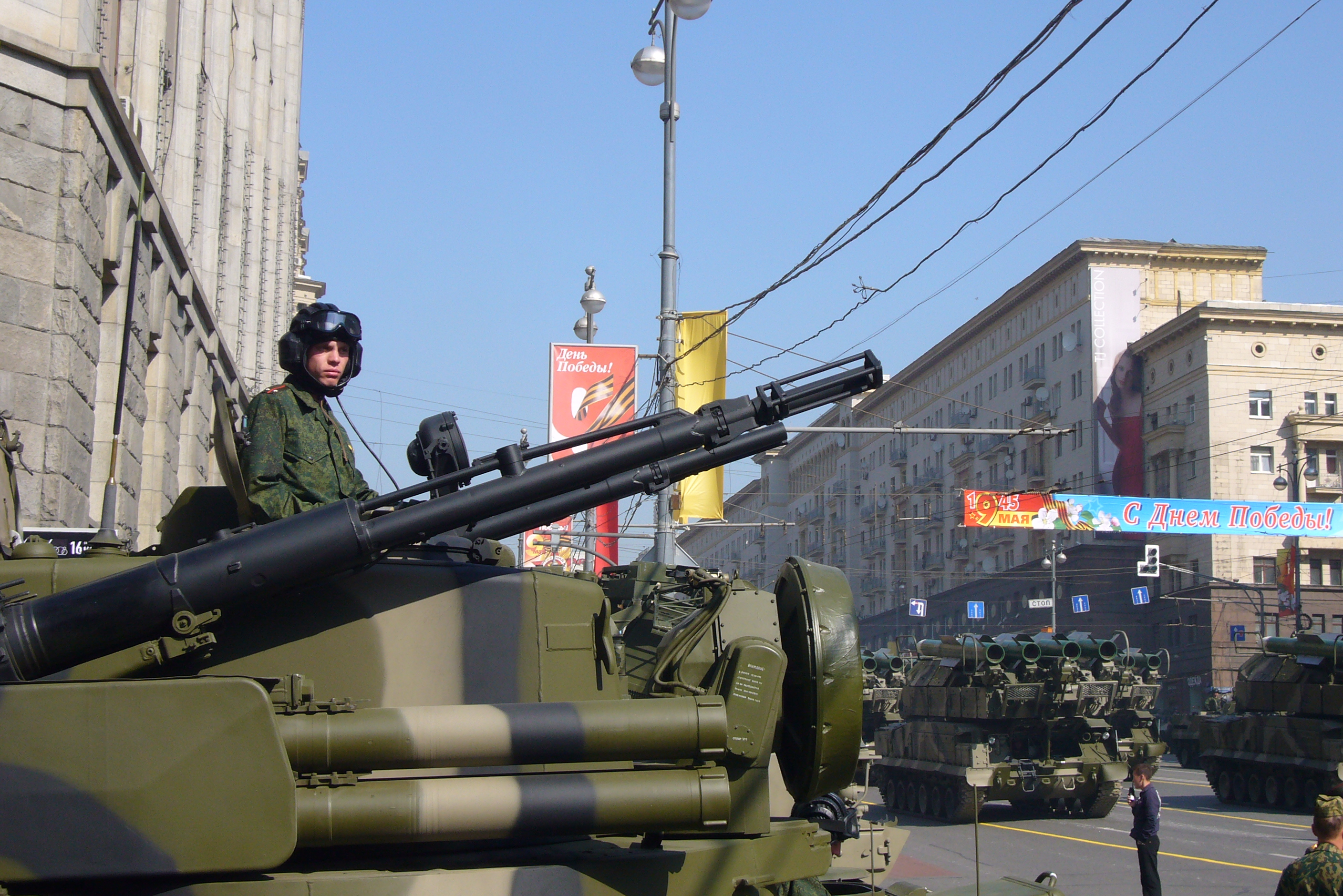 Victory Day Anniversary Parade Rehearsal, Tverskaya Street, Moscow, Russia, May 5, 2008.